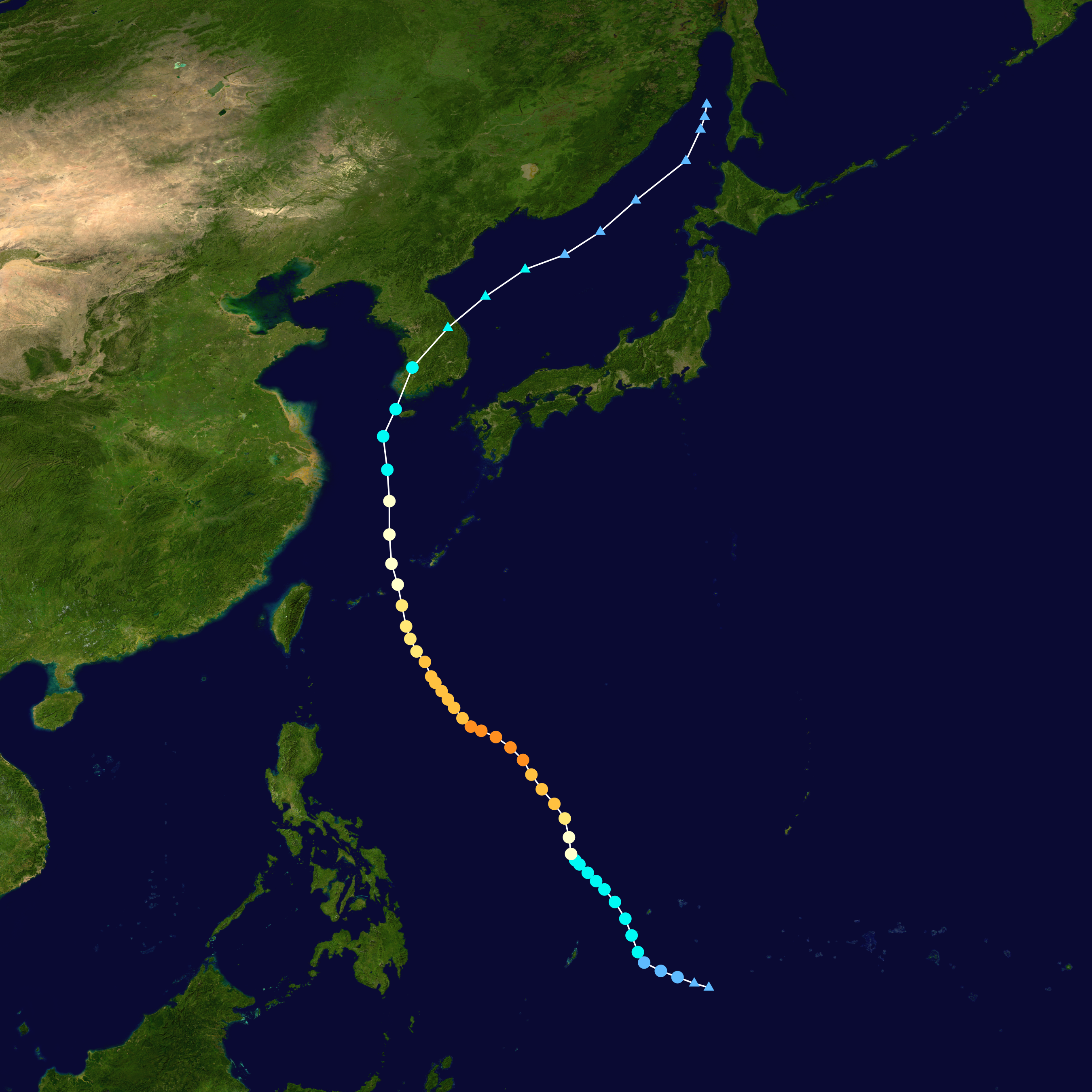 Typhoon Ewiniar (2006) track. Uses the color scheme from the Saffir-Simpson Hurricane Scale.